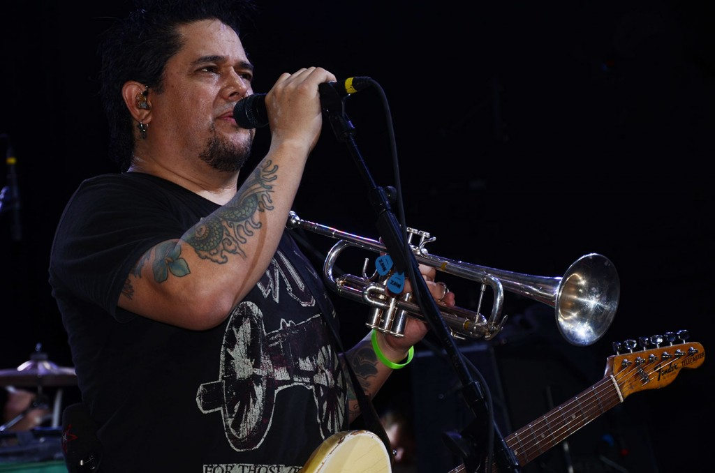 El Hefe playing trumpet with NOFX at The Observatory in Santa Ana, CA on December 14, 2012